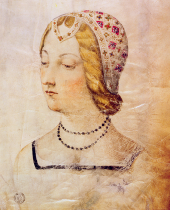 Portrait of Laura in the Laurentian Library, Florence